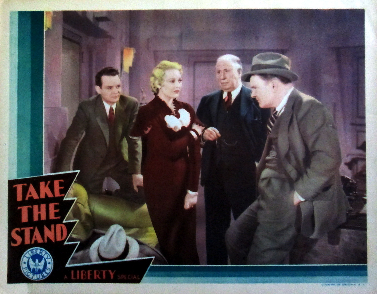 Lobby card from the 1934 film Take the Stand with Russell Hopton (left), Thelma Todd (center), and Paul Hurst (right).